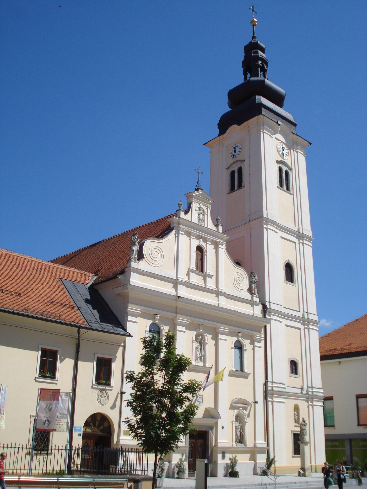 St. Nicholas (the bishop) Church, Čakovec - southwest view